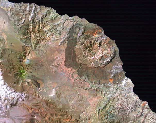 10-km-wide caldera of El Aguajito volcano is in the upper right of image, in Baja California Sur. Las Vírgenes volcanic complex at the left center. Part of the Volcanoes of the east-central Baja California Peninsula.